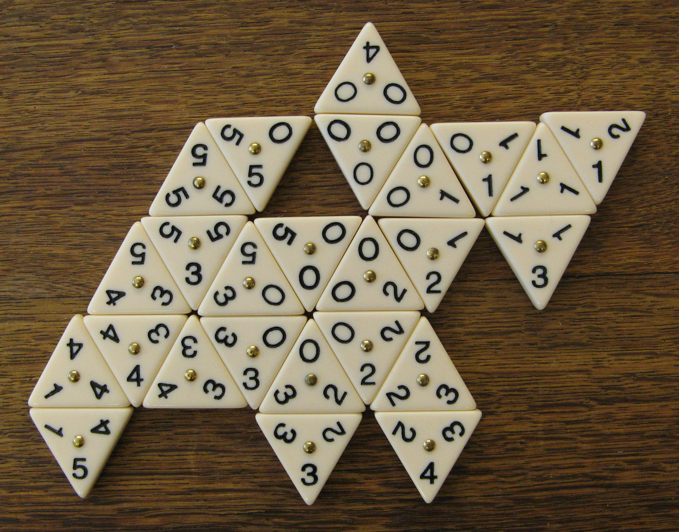 Example of game Triominos